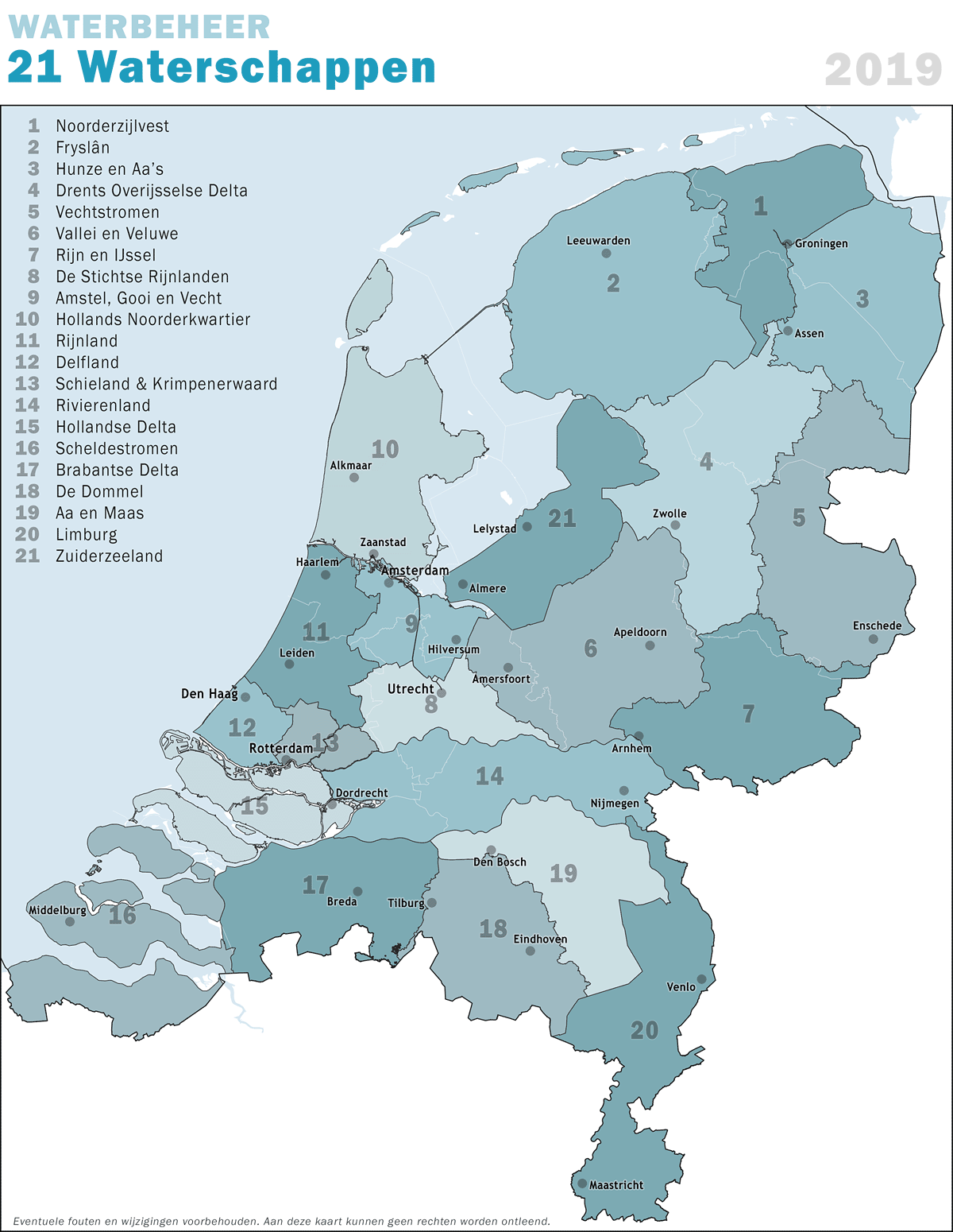 Overview map of the Dutch Polder Boards as per 2019, compiled by Jan-Willem van Aalst using open geodata.